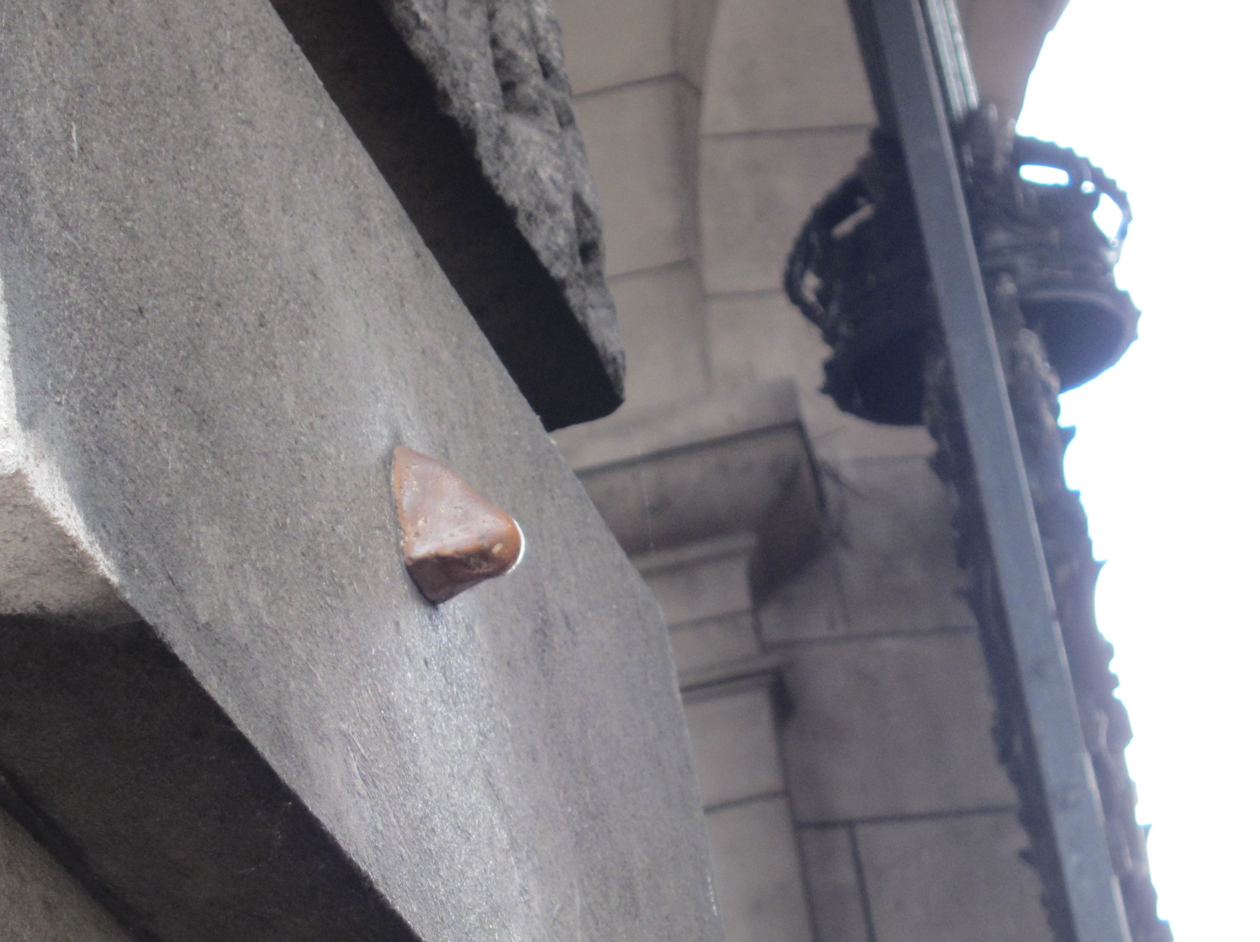 Admiralty Arch showing the nose